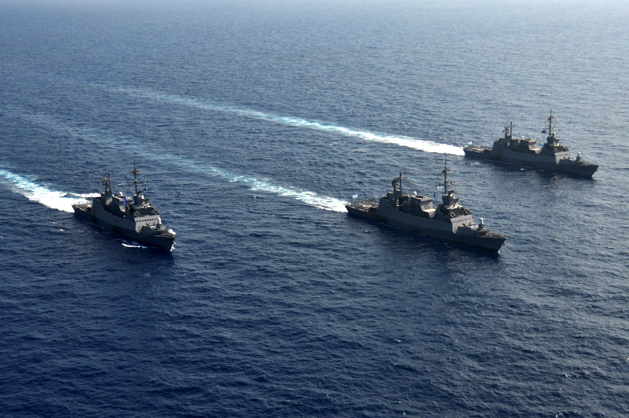 Three Sa'ar 5 class missile corvettes of the Israeli Navy cruise off the shore of Israel during a training exercise.